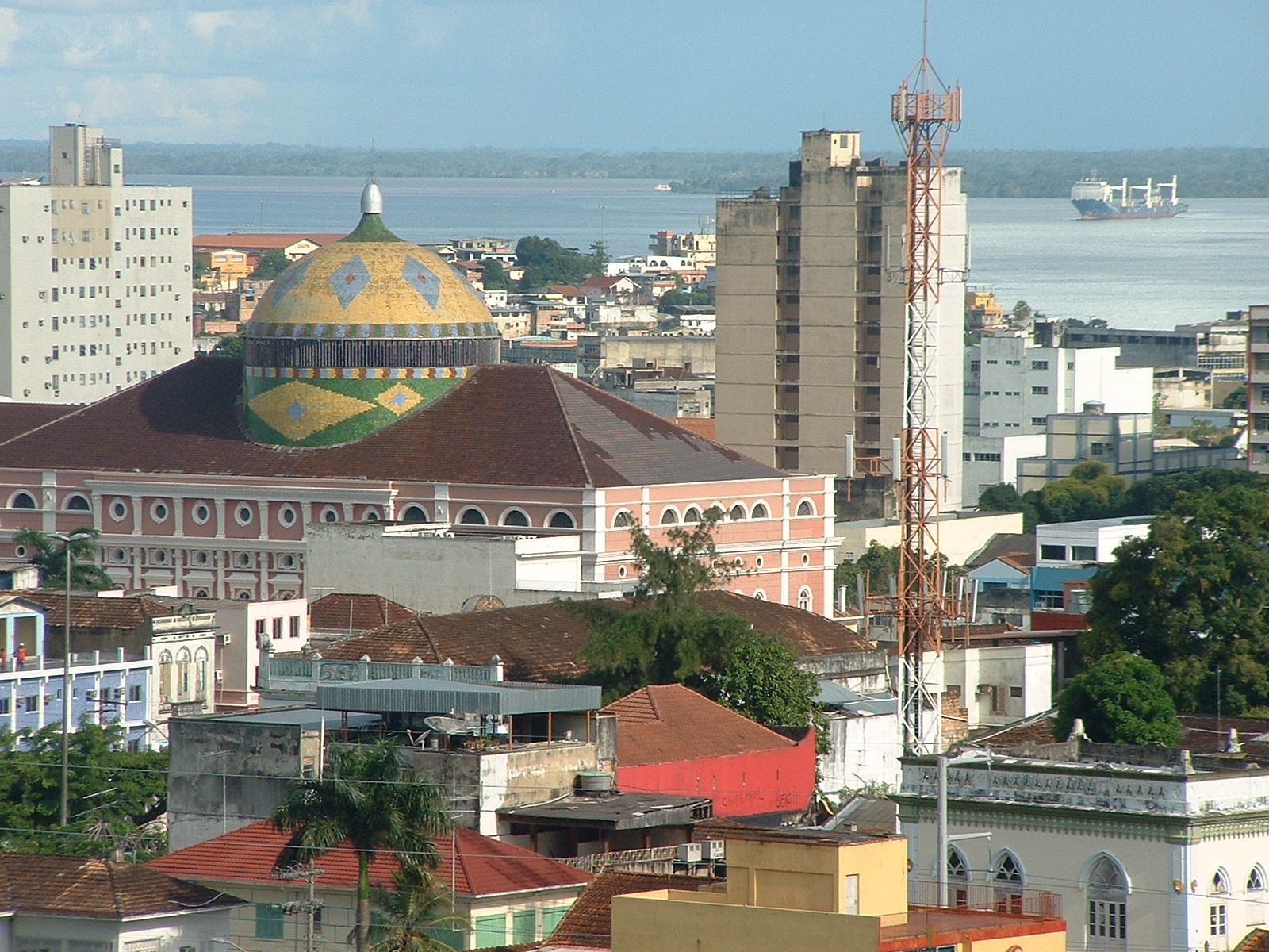 Manaus downtown: Teatro Amazonas. Background: Rio Negro.